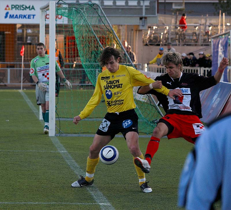 Former international, Harri Ylönen of KuPS Kuopio. 1st div. football, KuPS vs. Jippo at Magnum Areena, Kuopio, Finland.